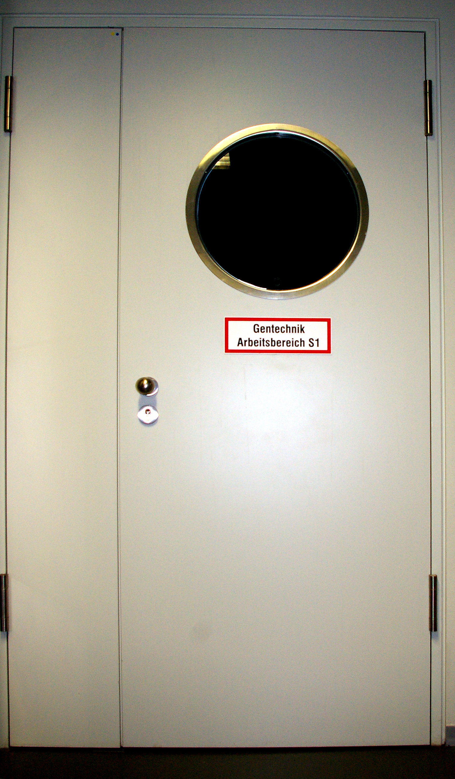 A door to S1 biohazard laboratory